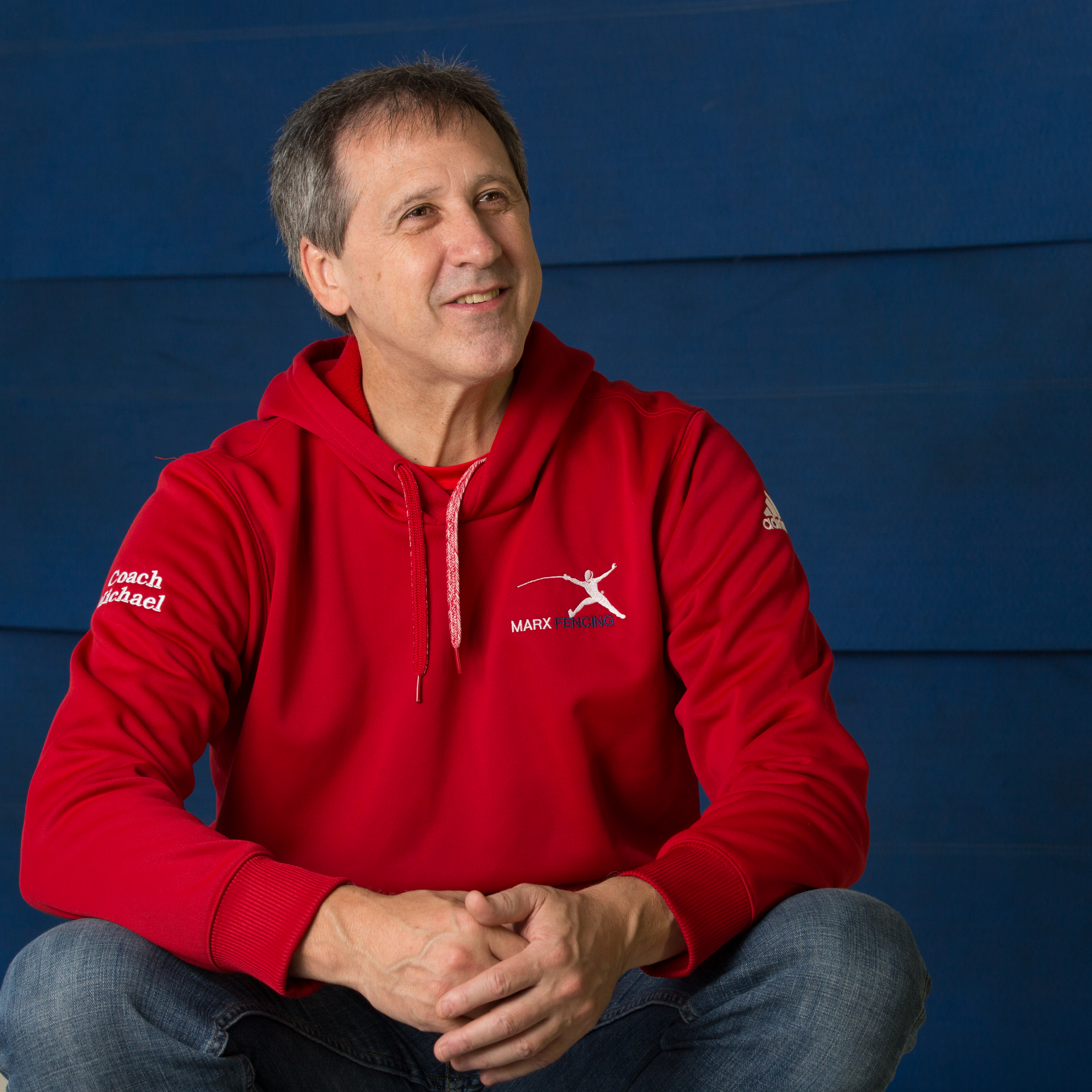 5-time Olympian Michael Marx. Photo taken in 2016.